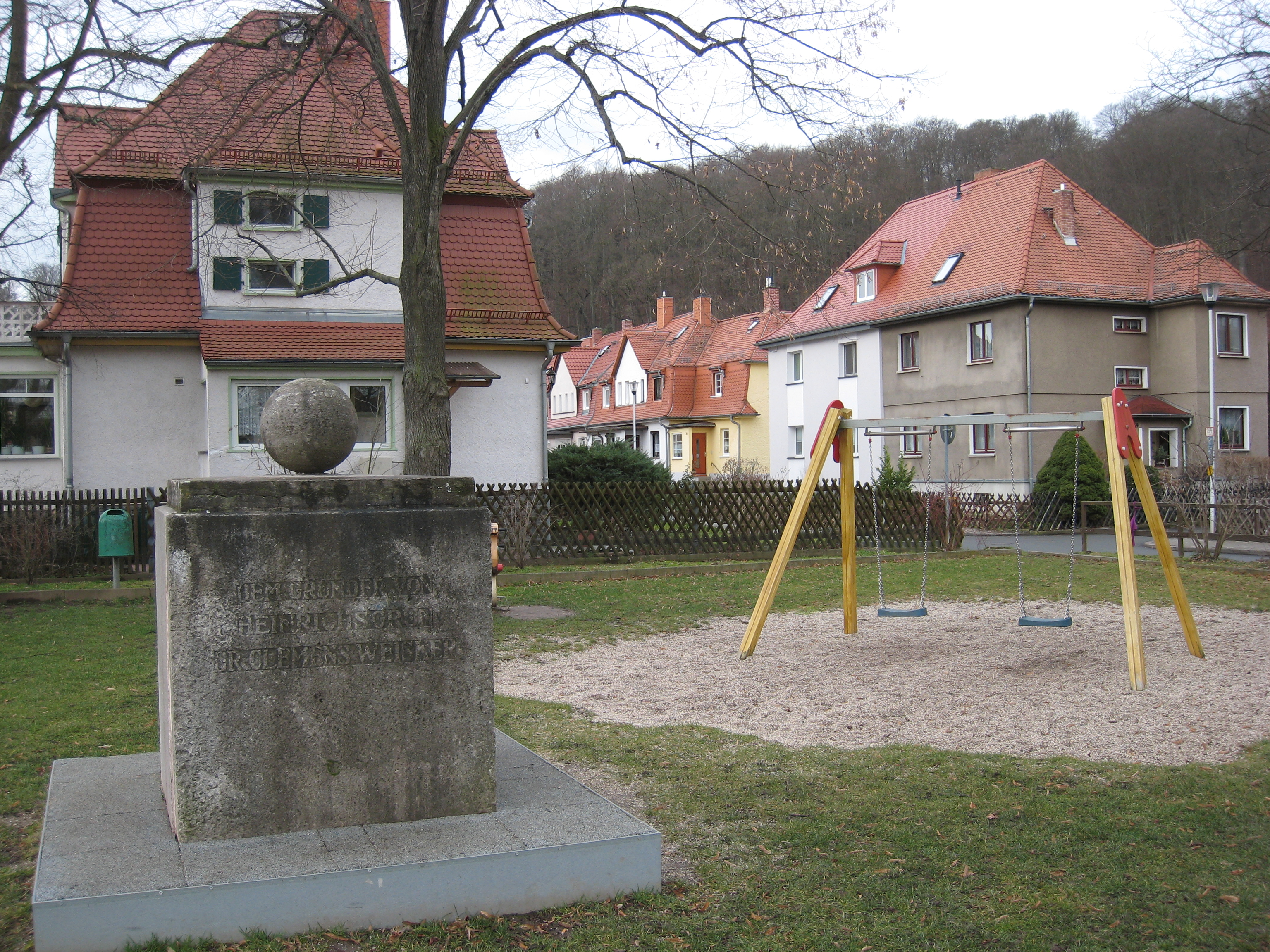 Monument for Clemens Weisker (1863-1919) in Gera, Lortzingstraße